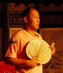 Political Cartoonist Kuang Biao at TEDxCanton , 2010